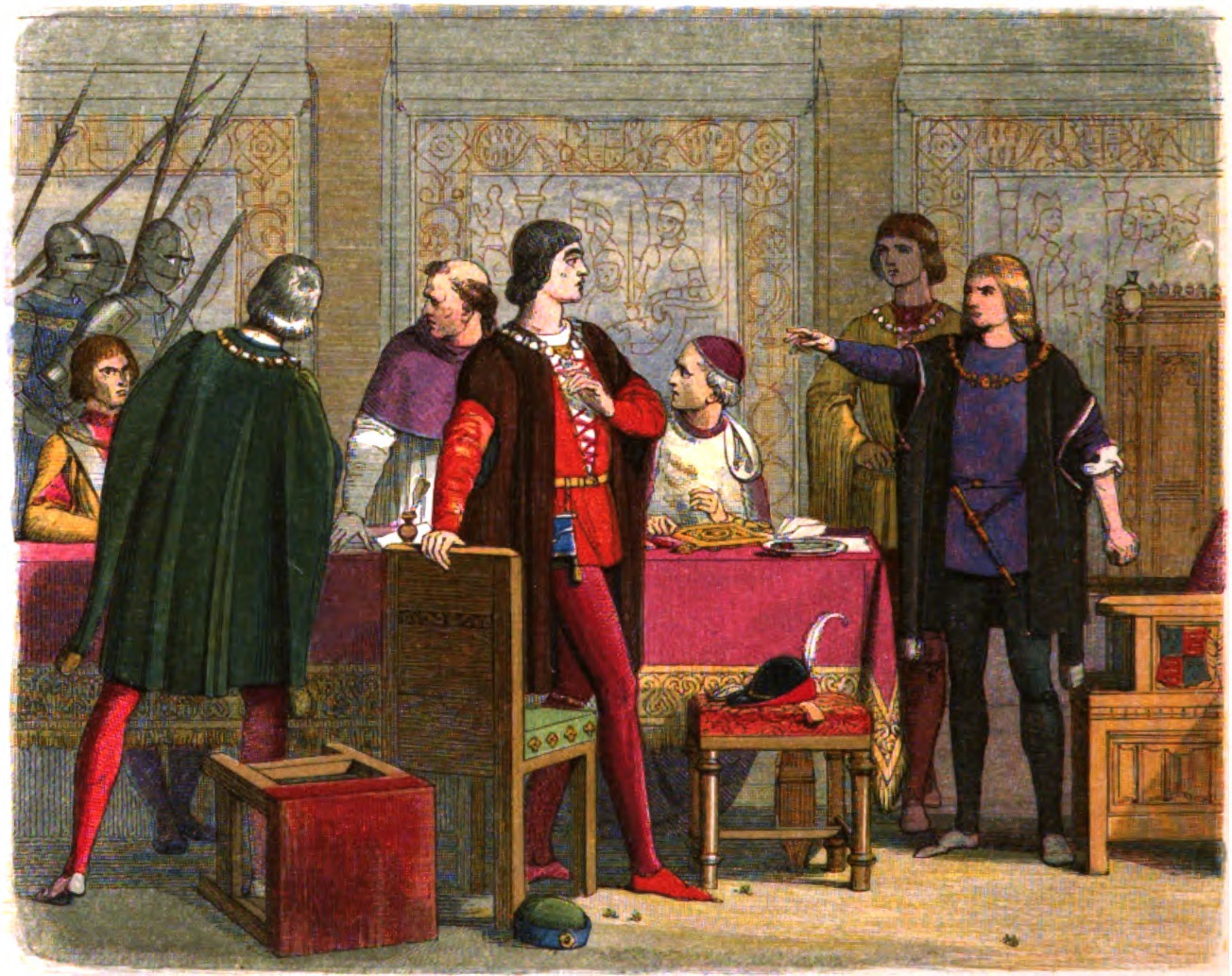 Richard, acting as Lord Protector, orders the arrest of William Hastings, 1st Baron Hastings.